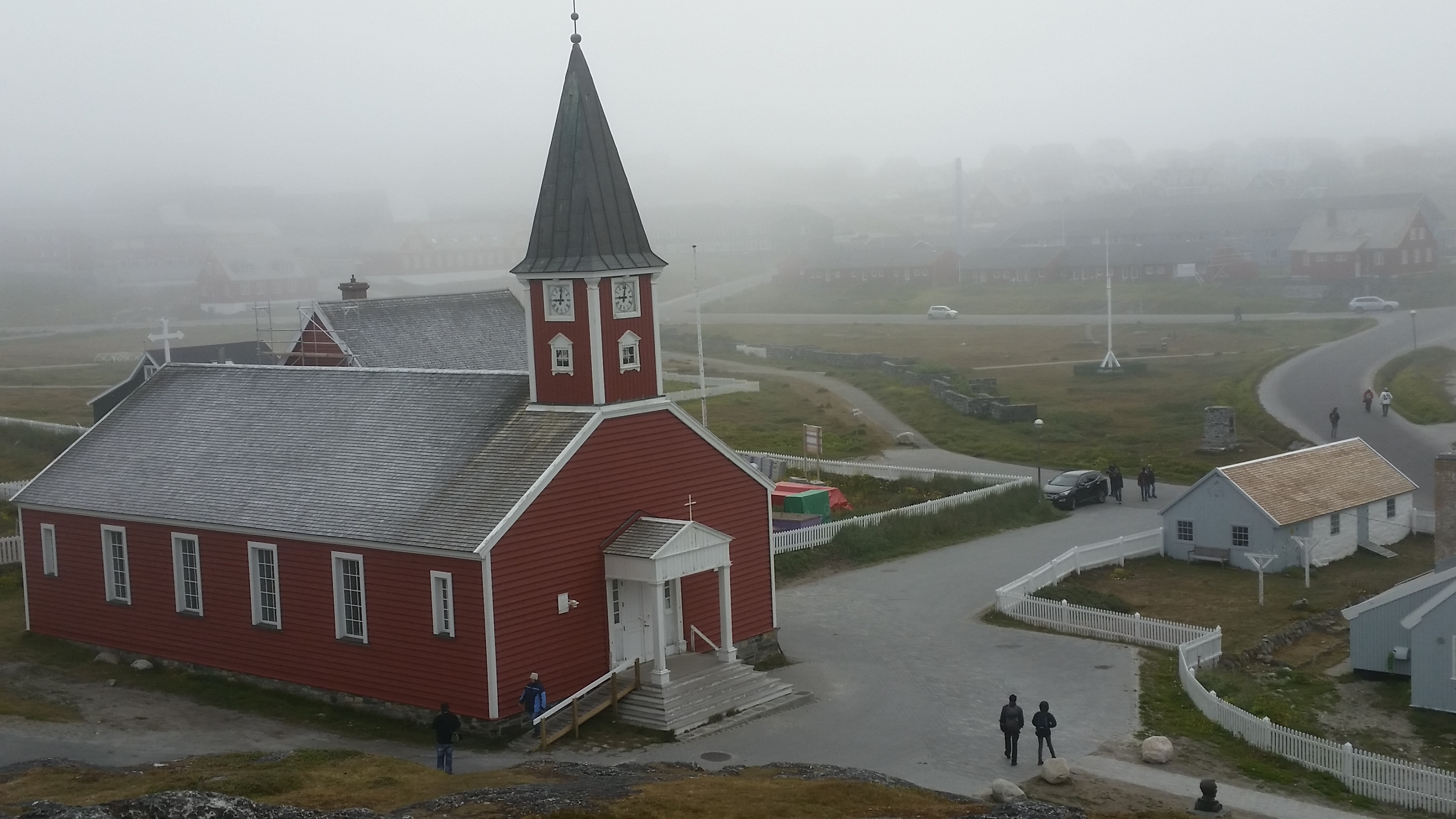 The church of Nuuk.